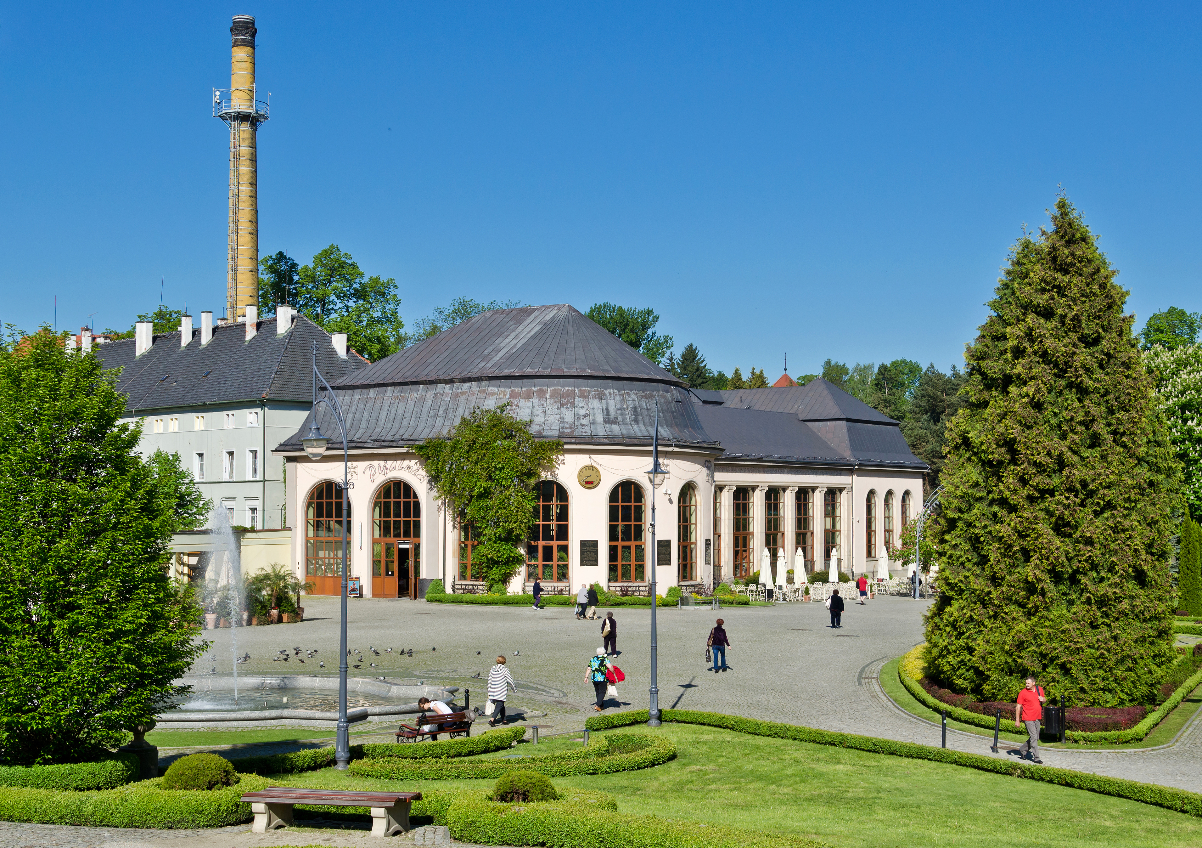 Drinking house in spa park, in Kudowa-Zdrój